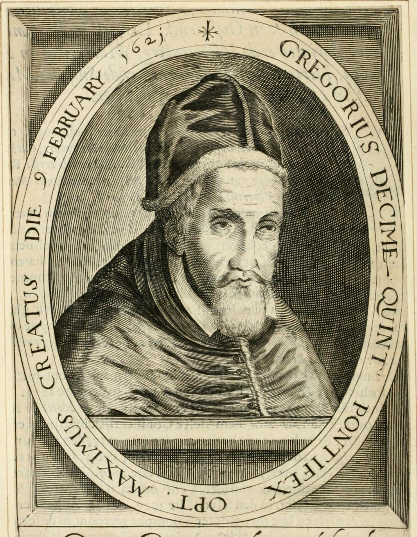 Title: General biography; or, Lives, critical and historical, of the most eminent persons of all ages, countries, conditions, and professions, arranged according to alphabetical order Year: 1818 (1810s) Authors: Aikin, John, 1747-1822 Enfield, William, 1741-1797 Subjects: Biography Publisher: London : Smeeton Text Appearing Before Image: ' Text Appearing After Image: ^ a us A vcciunm . Ic (jjifrsmaidc, cu G R E ( 541 ) G R E pretensions of no fewer than sixteen candidatesfor the papal clirdr, who were all rejected uponthe different scrutinies which took place. Atlength the Spanish party unexpectedly proposedour cardinal, and having succeeded in obtaininga legal majority of votes, he was acknowledgedpope, and upon his consecration took the nameof Gregory XIV. As soon as he was settled inhis new dignity, he made large presents to eachof the cardinals; provided against the dearnessof corn and other provisions; and restored thoseRomans to their places and ofhces, whom Six-tus V. had deprived. His next object was tosignalise his zeal for the catholic faith : withwhich view, at the instigation of the Spanishambassador, he declared for tlie catholic leaguein France, and promised to furnish them with amonthly sum of fifteen thousand crowns, aslong as he should see it necessary for their de-fence. He even raised an army for the assist-ance of tlie league